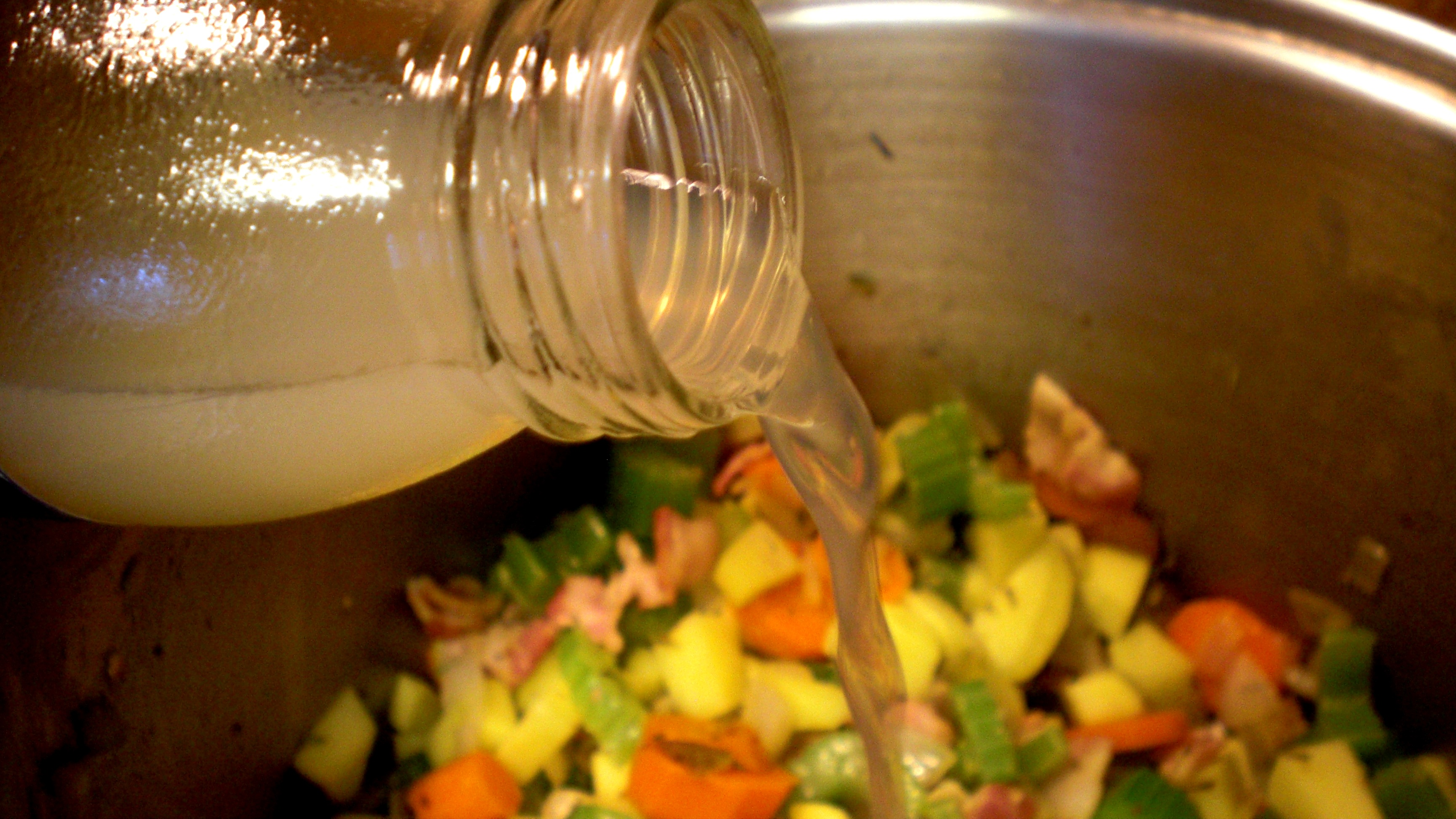 little more clam juice in the chowder